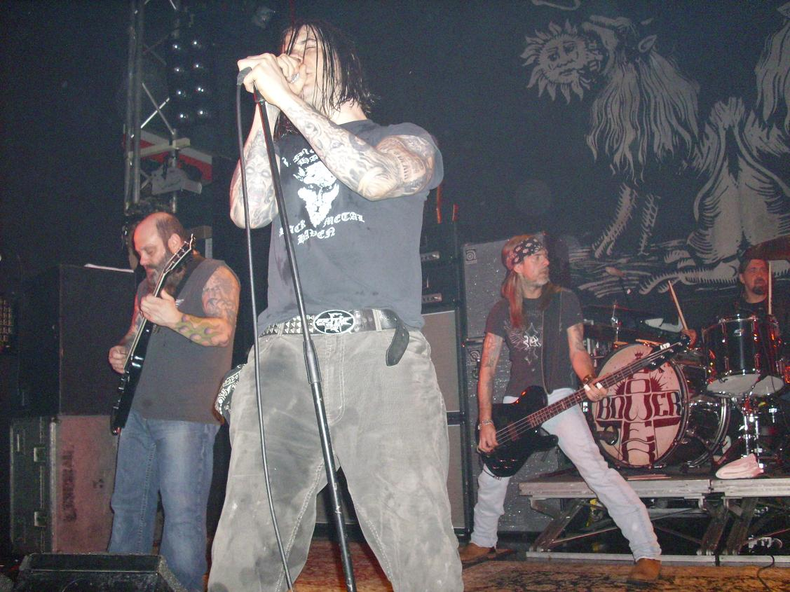 The supergroup, Down, performing in Sala Joy Eslava Madrid.